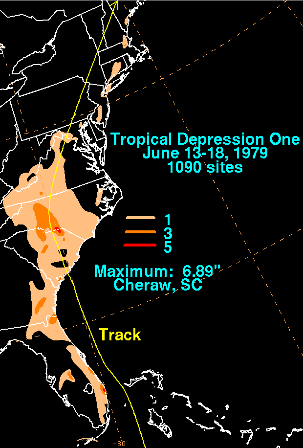 Storm total rainfall map of Tropical Depression One during June 1979.